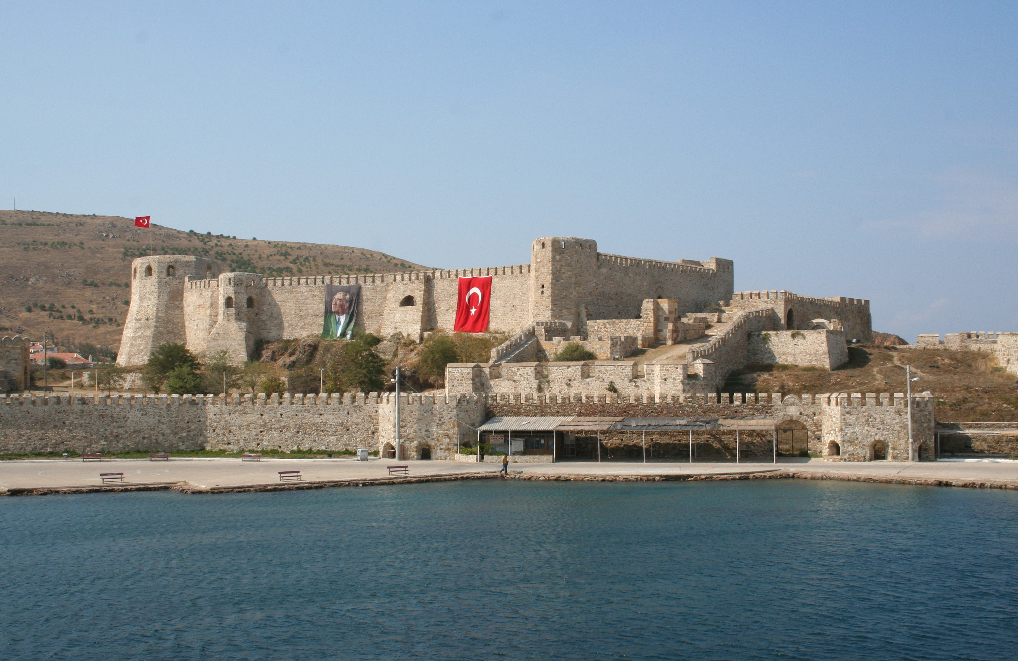 Bozcaada Castle, Çanakkale, Turkey.